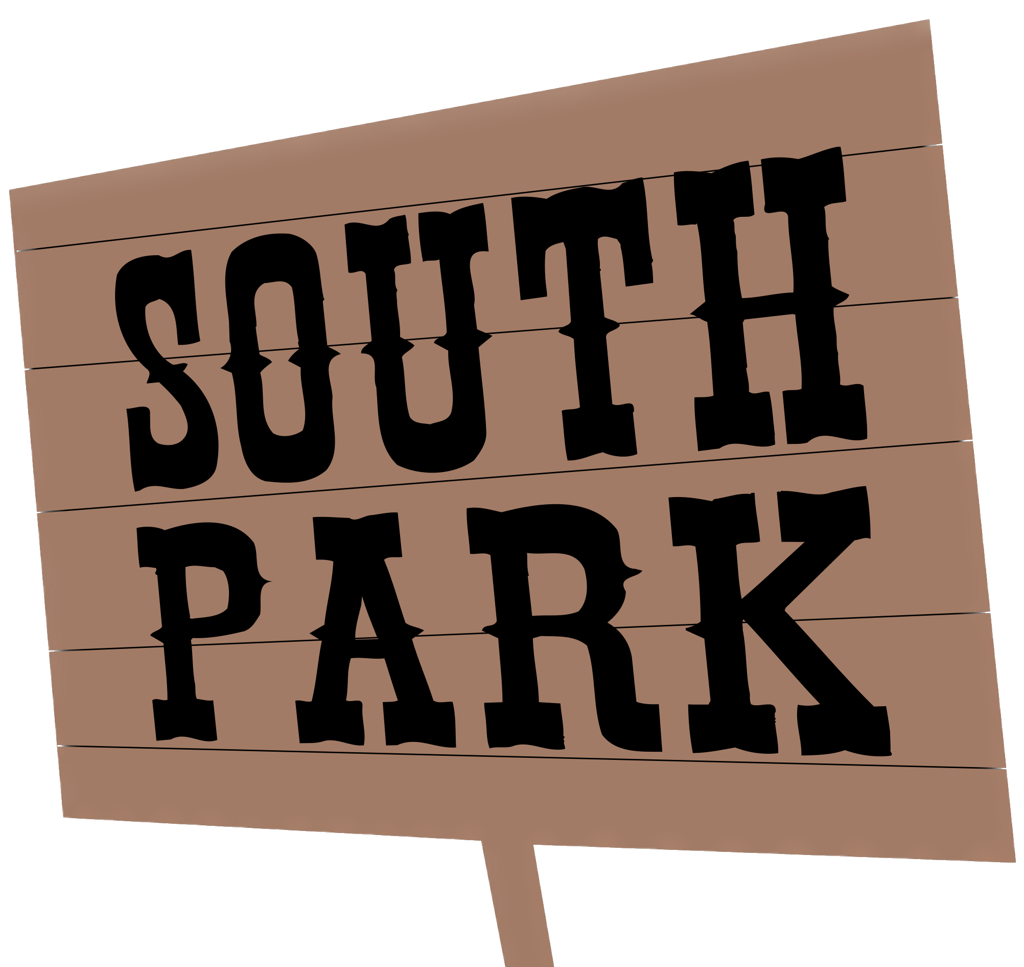 Logo of the Comedy Central TV series "South Park."